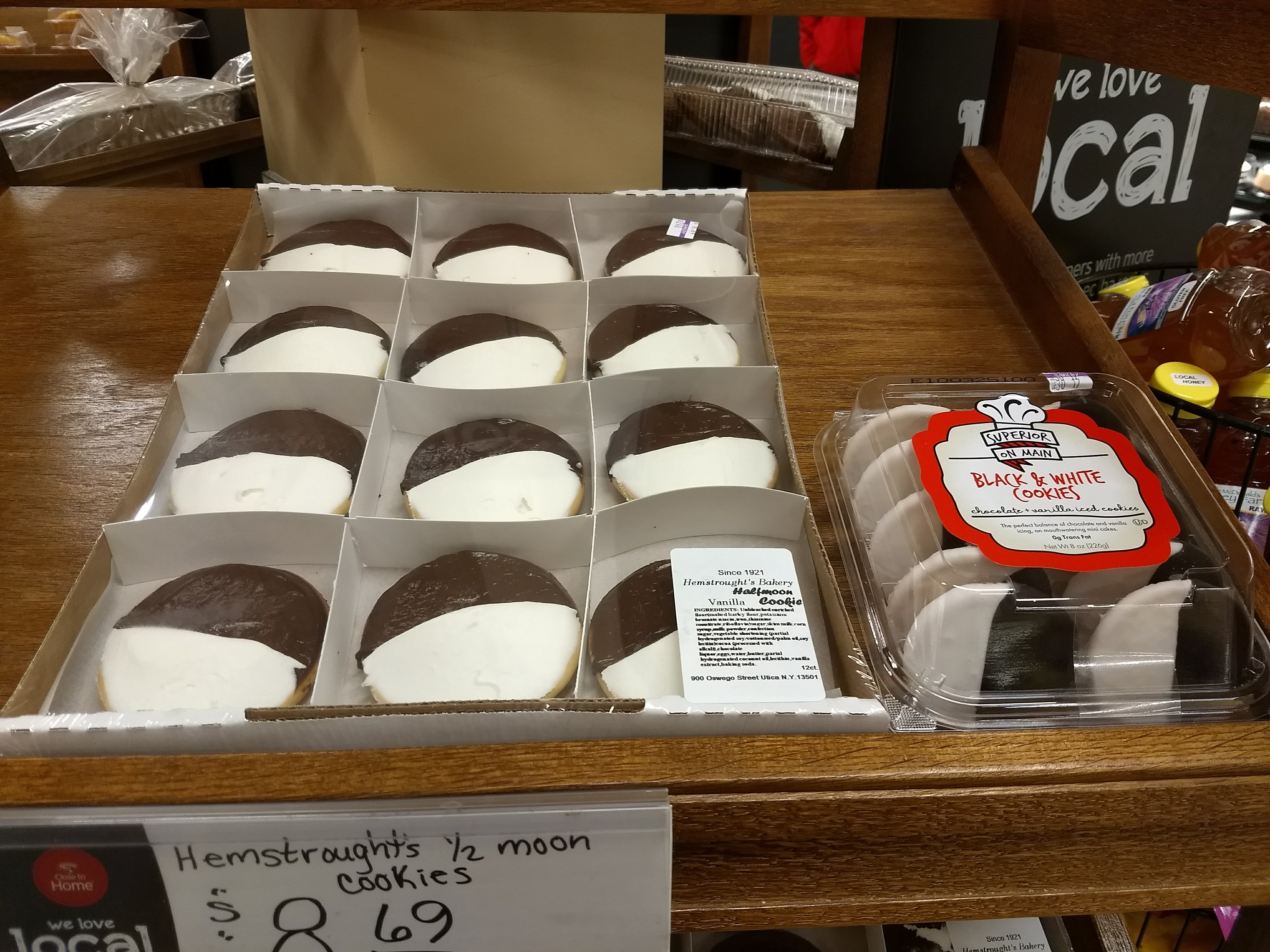 A comparison of Half Moon cookies and Black & White cookies. Photographed in the Hannaford grocery store in New Hartford, NY.